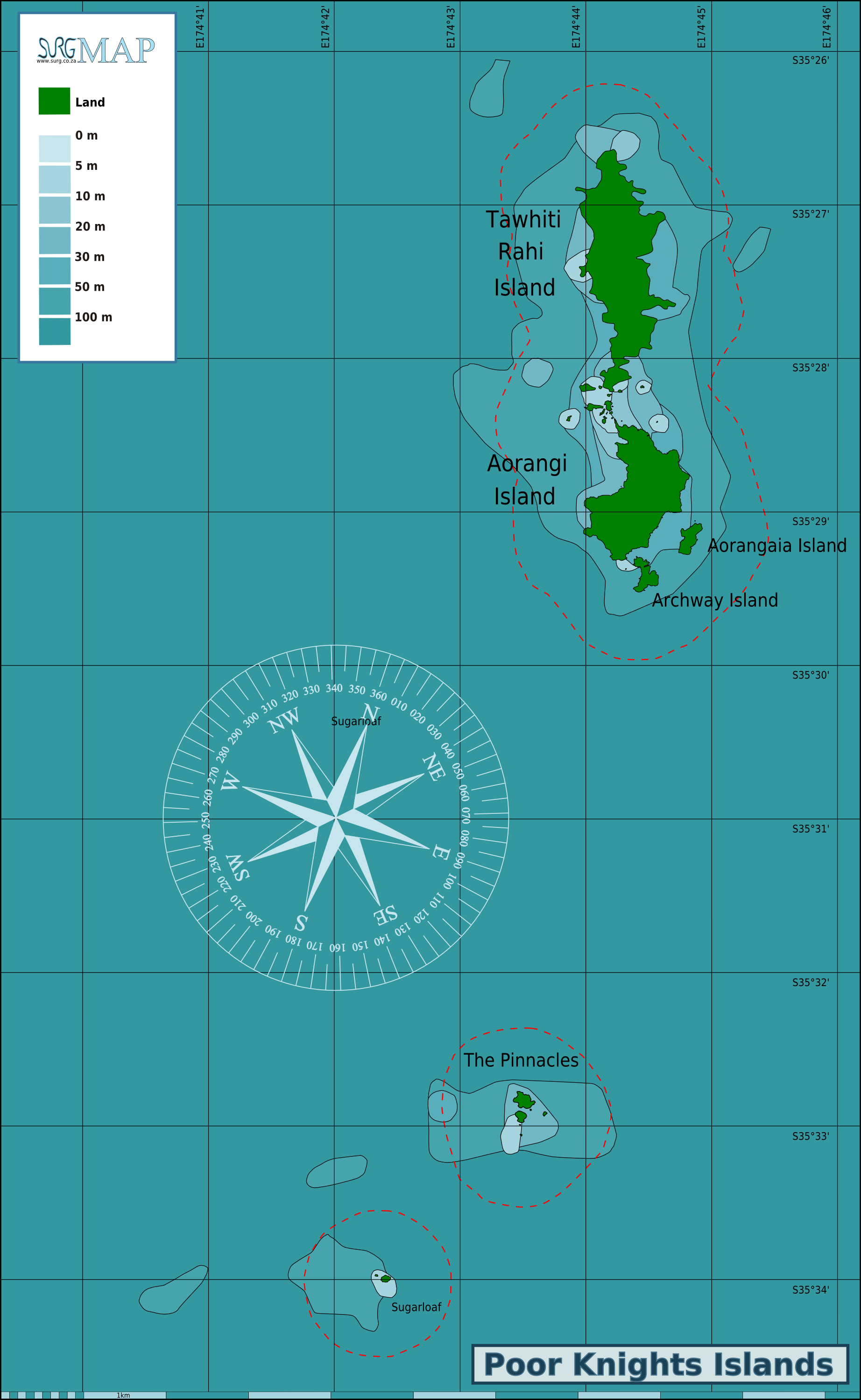 Chart of the Poor Knights Island region of New Zealand